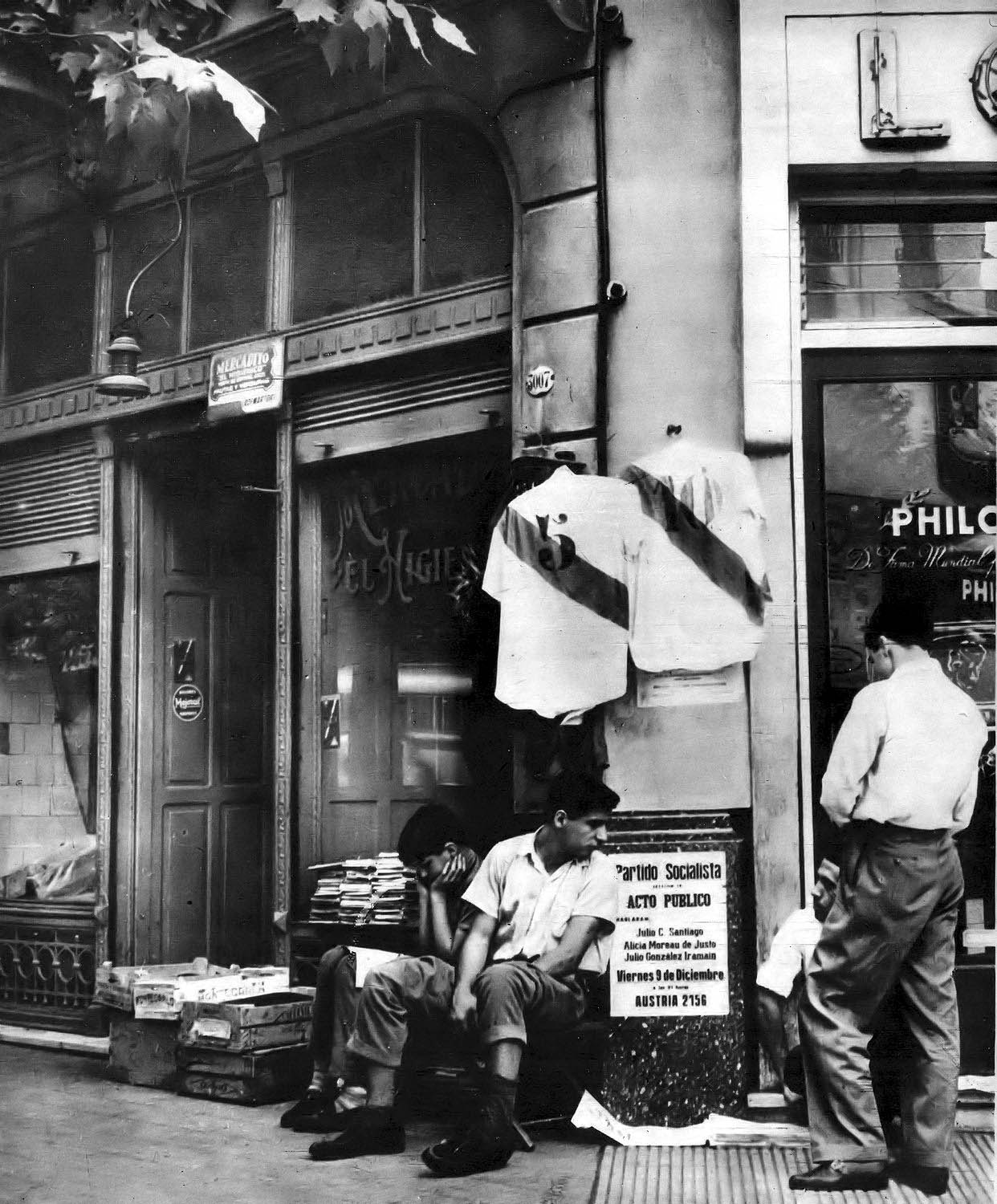 The jerseys of Rossi and Labruna exhibited at Av. Santa Fe 3007, Buenos Aires.